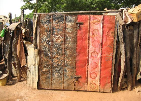 door made of oil drums